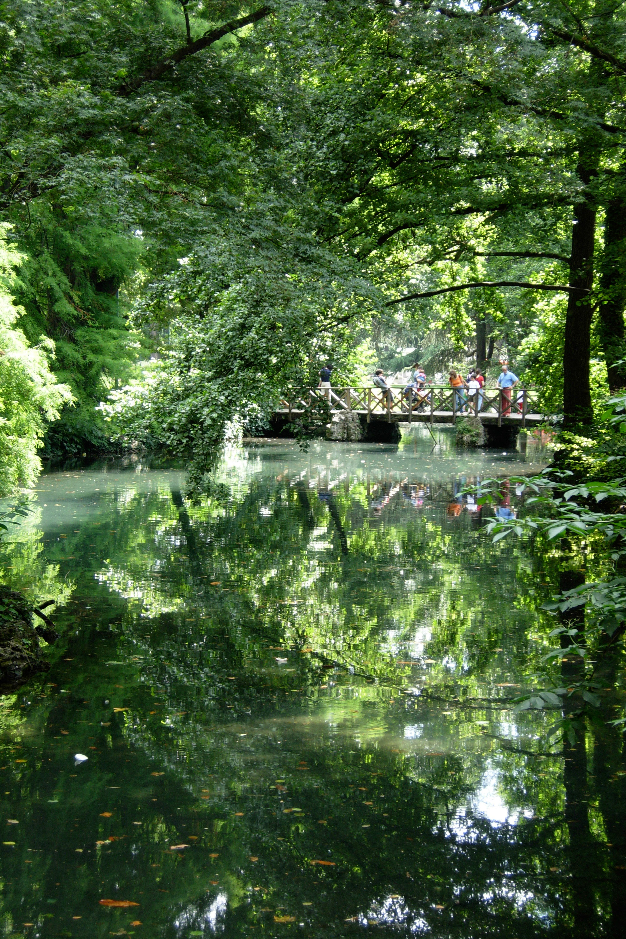 Via Palestro City Garden, Milan Italy